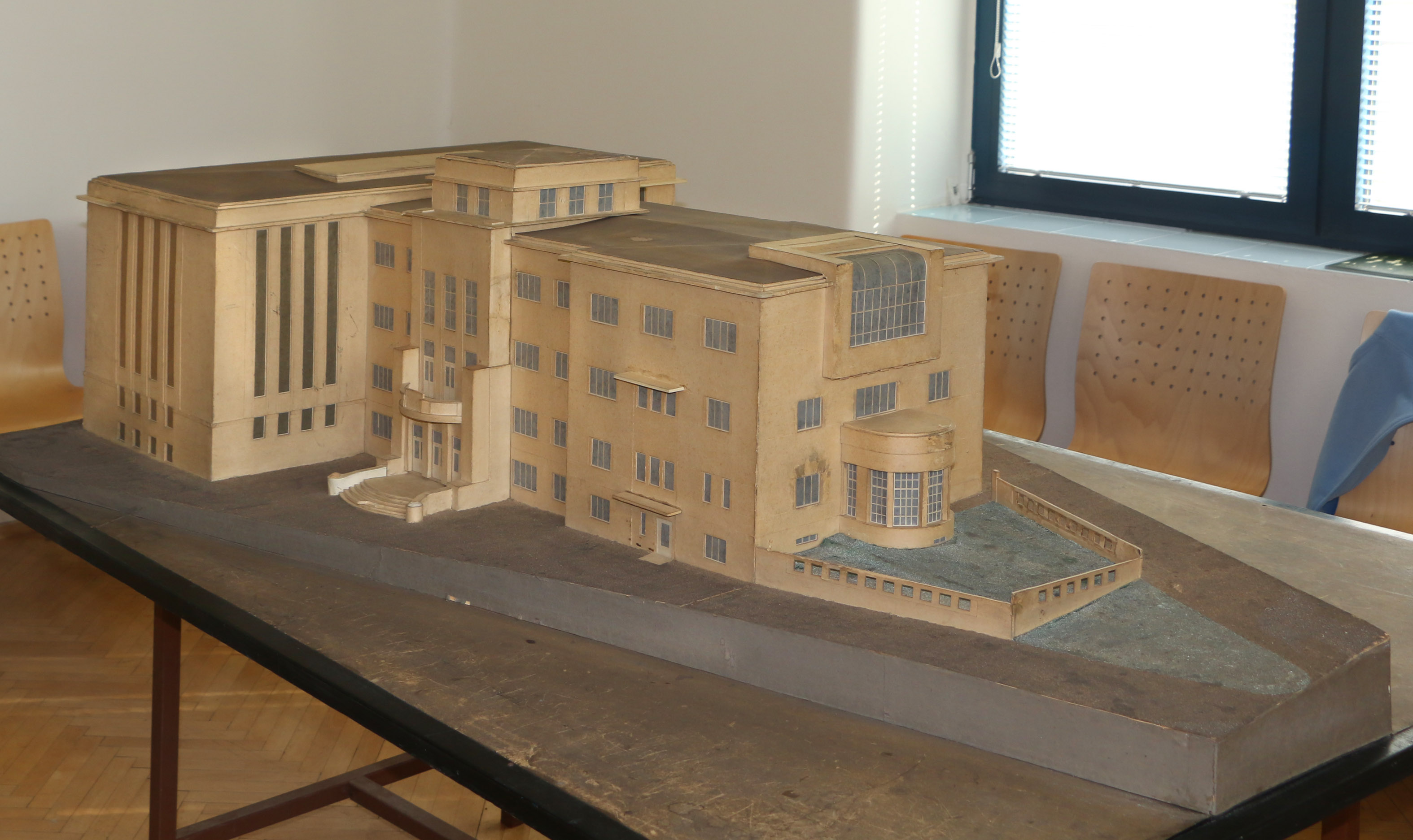 Model of the National archives, 1st department, Prague. Author unknown.